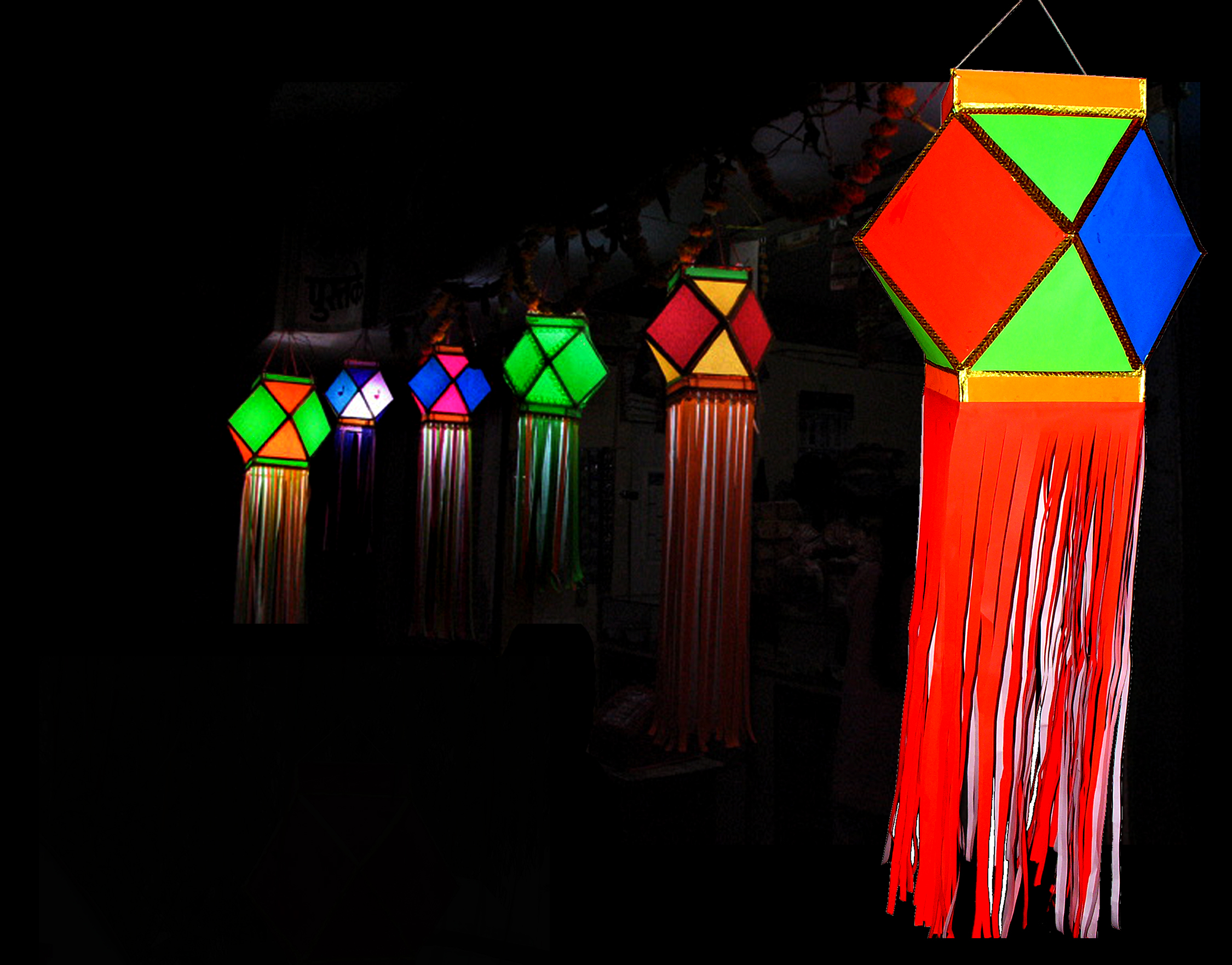 The city of Nashik, in Maharashtra has preserved its age old tradition of Indian Lanterns, made from eco-friendly material by the MAIGA.